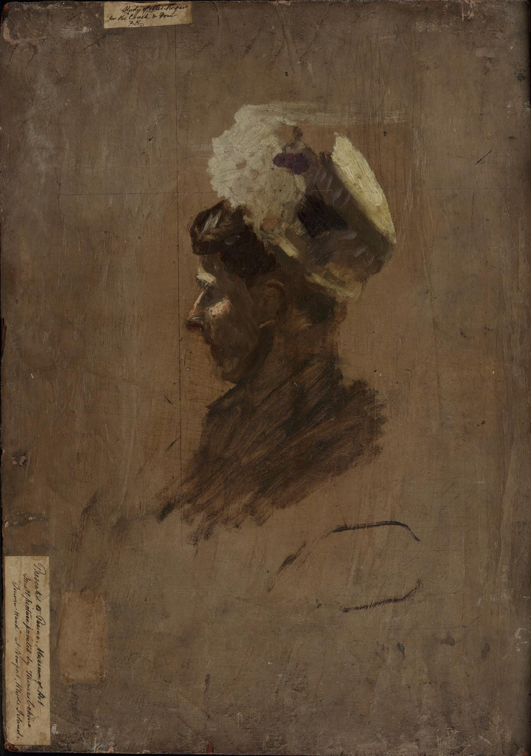 Portrait of Mrs. Fairman Rogers - Study for The Fairman Rogers Four-in-Hand by Thomas Eakins